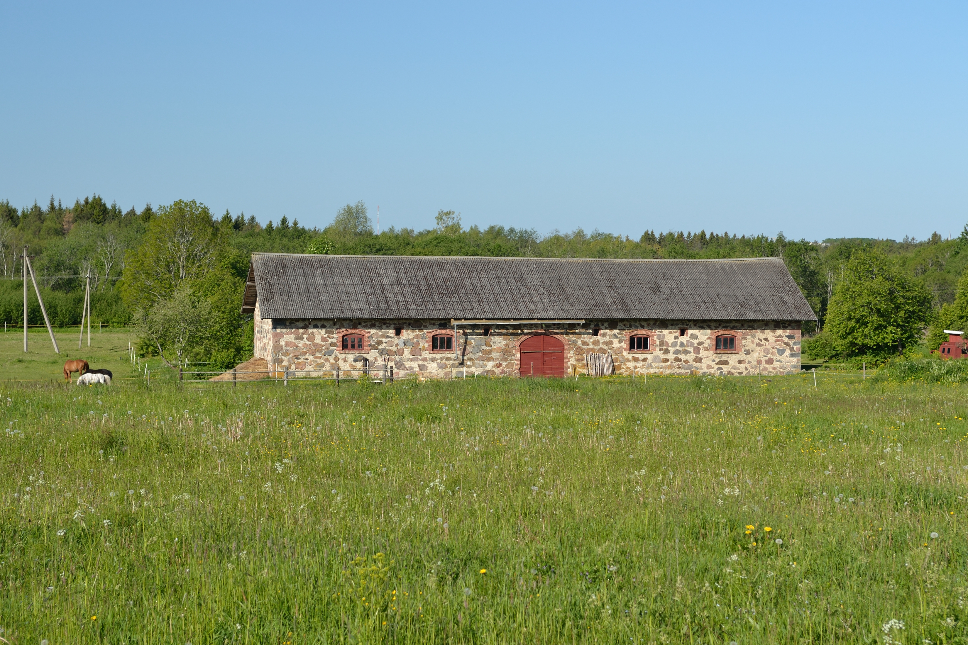 Imastu manor ox stable